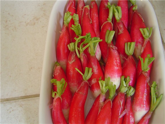 Radish, Raphanus sativus, ready to eat.